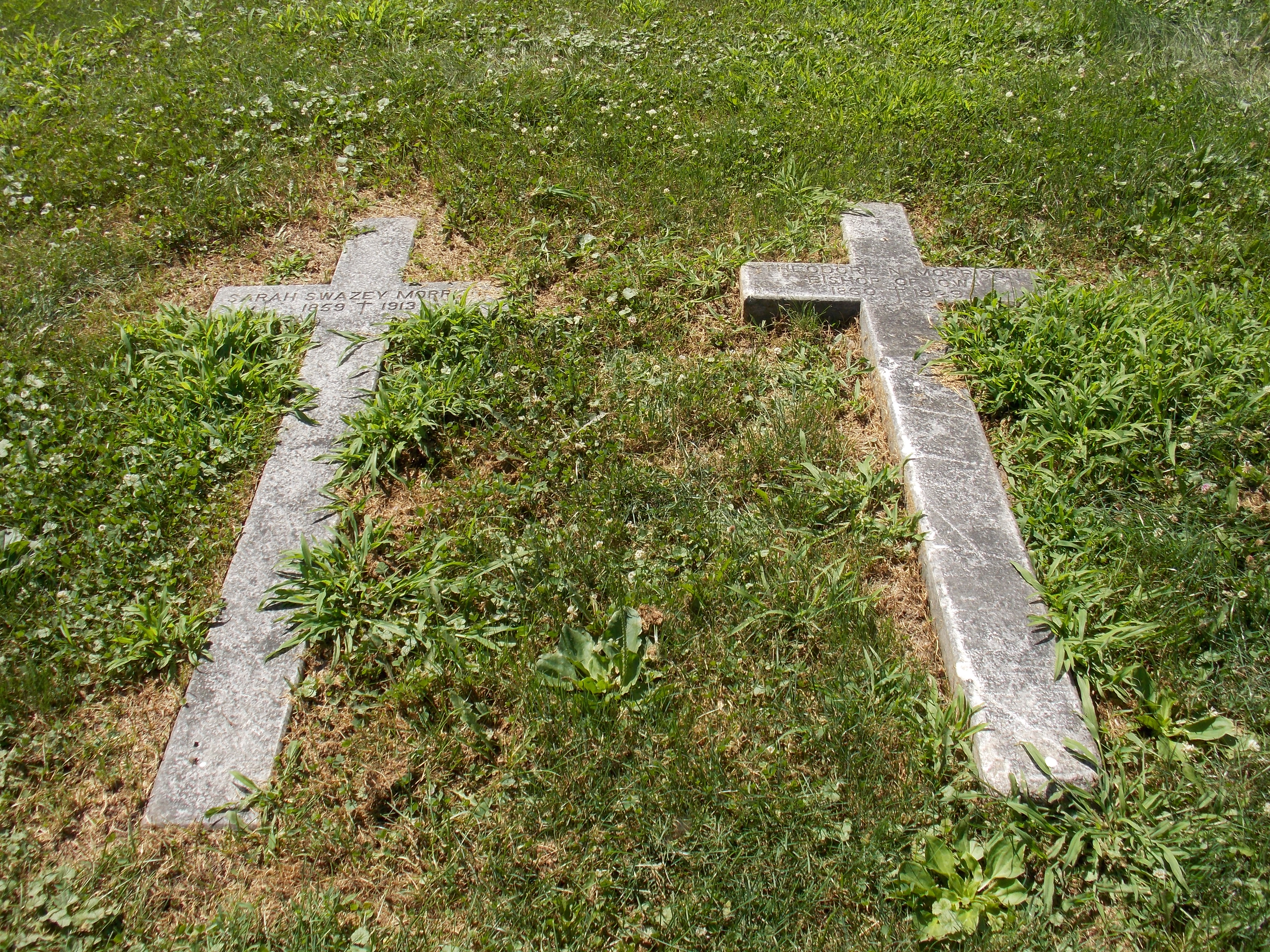 The graves of the Rt. Rev. Theodore Morrison, third bishop of the Episcopal Diocese of Iowa (right), and his wife Sarah.